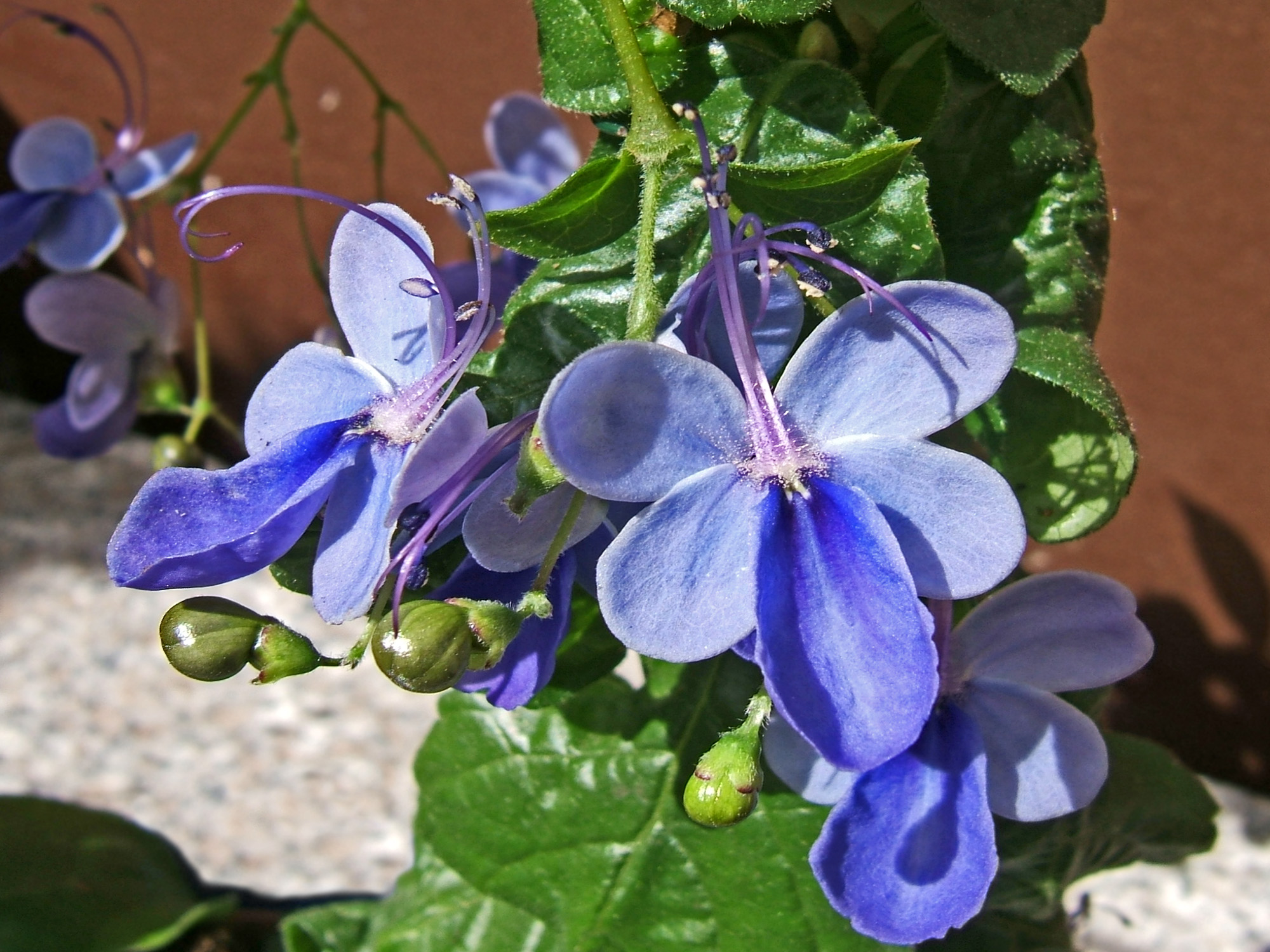 Butterfly Bush